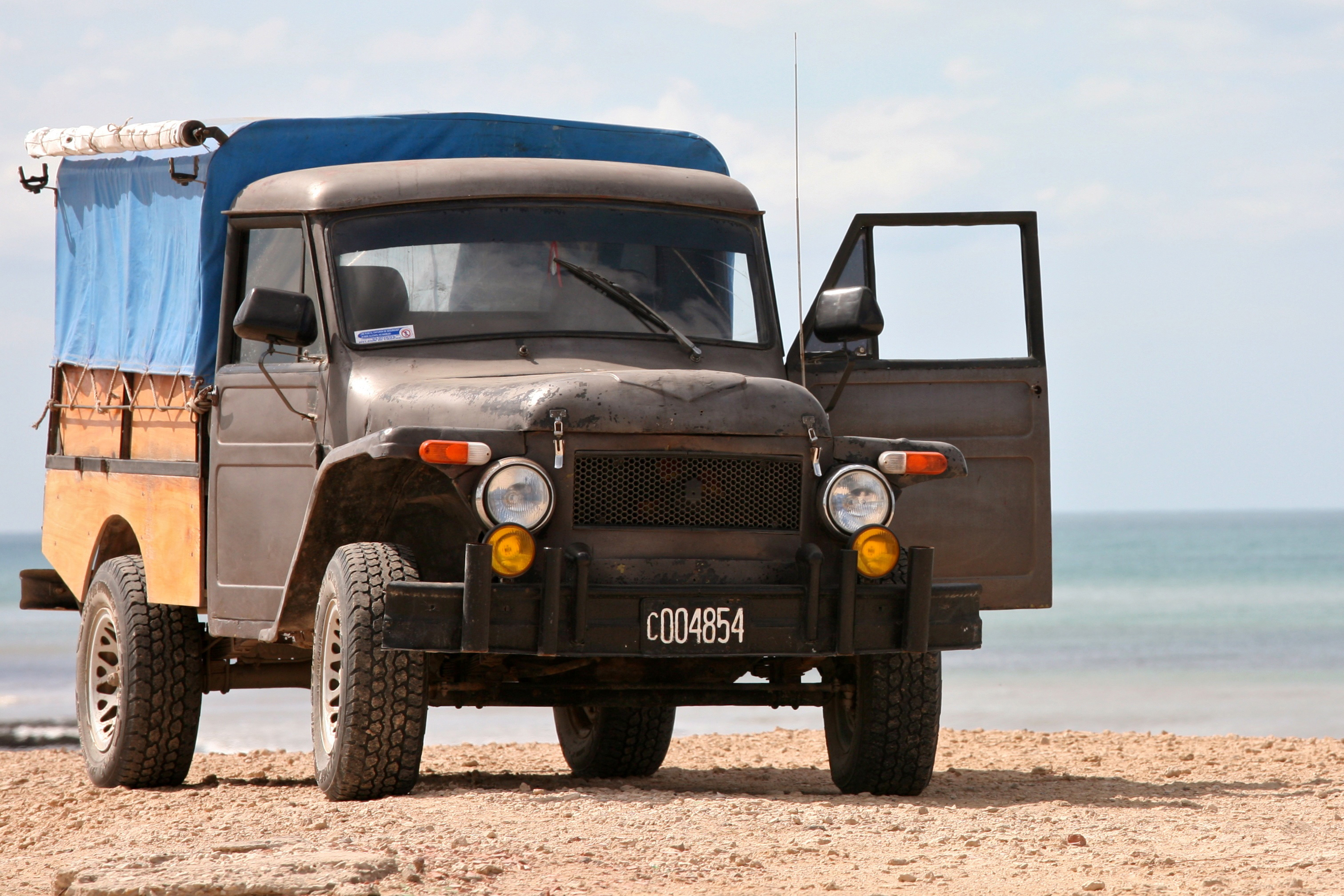 Rastrojero came as a 2-door and 4-door pickup truck